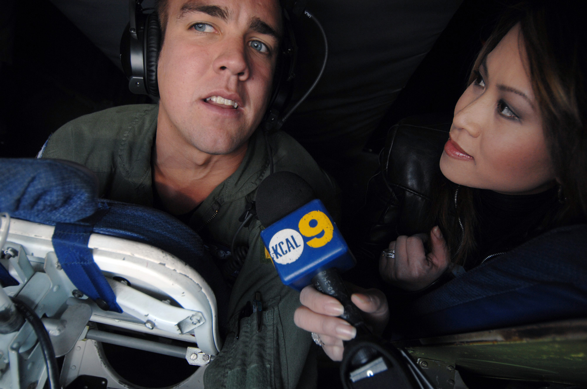 Leyna Nguyen, a news anchor and reporter for Los Angeles television stations KCAL and KCBS, interviews Senior Airman Terry Mossbarger during a flight aboard a KC-135 Stratotanker Nov. 12 from March Air Reserve Base, Calif., The media flight was part of Air Force Week-Los Angeles. Airman Mossbarger is a boom operator in Air Force Reserve Command's 336th Air Refueling Squadron. (U.S. Air Force photo/Master Sgt. Rick Sforza)